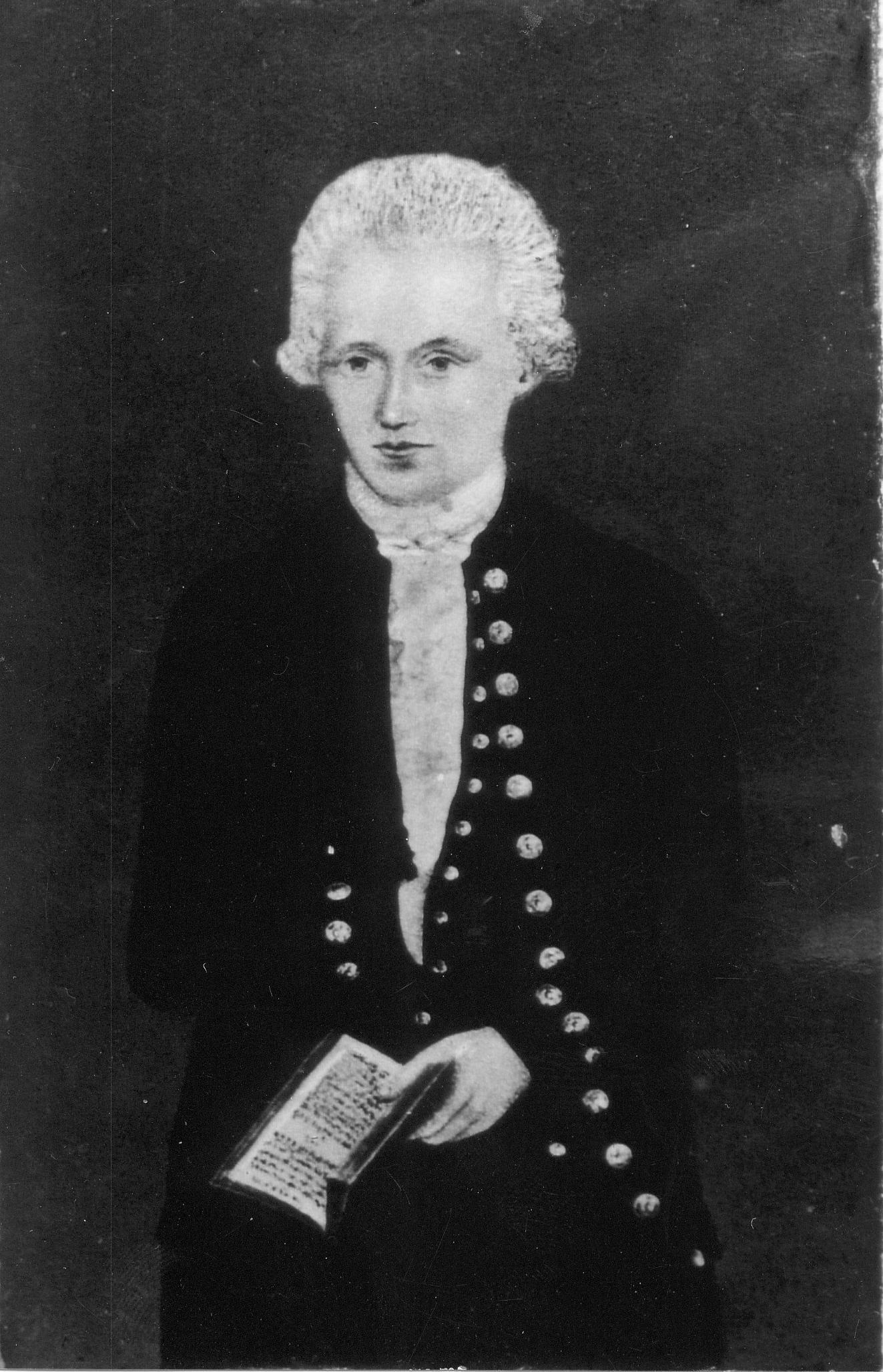 Karl Gottfried Hagen as young professor at the University of Koenigsberg, Prussia, todays Kaliningrad